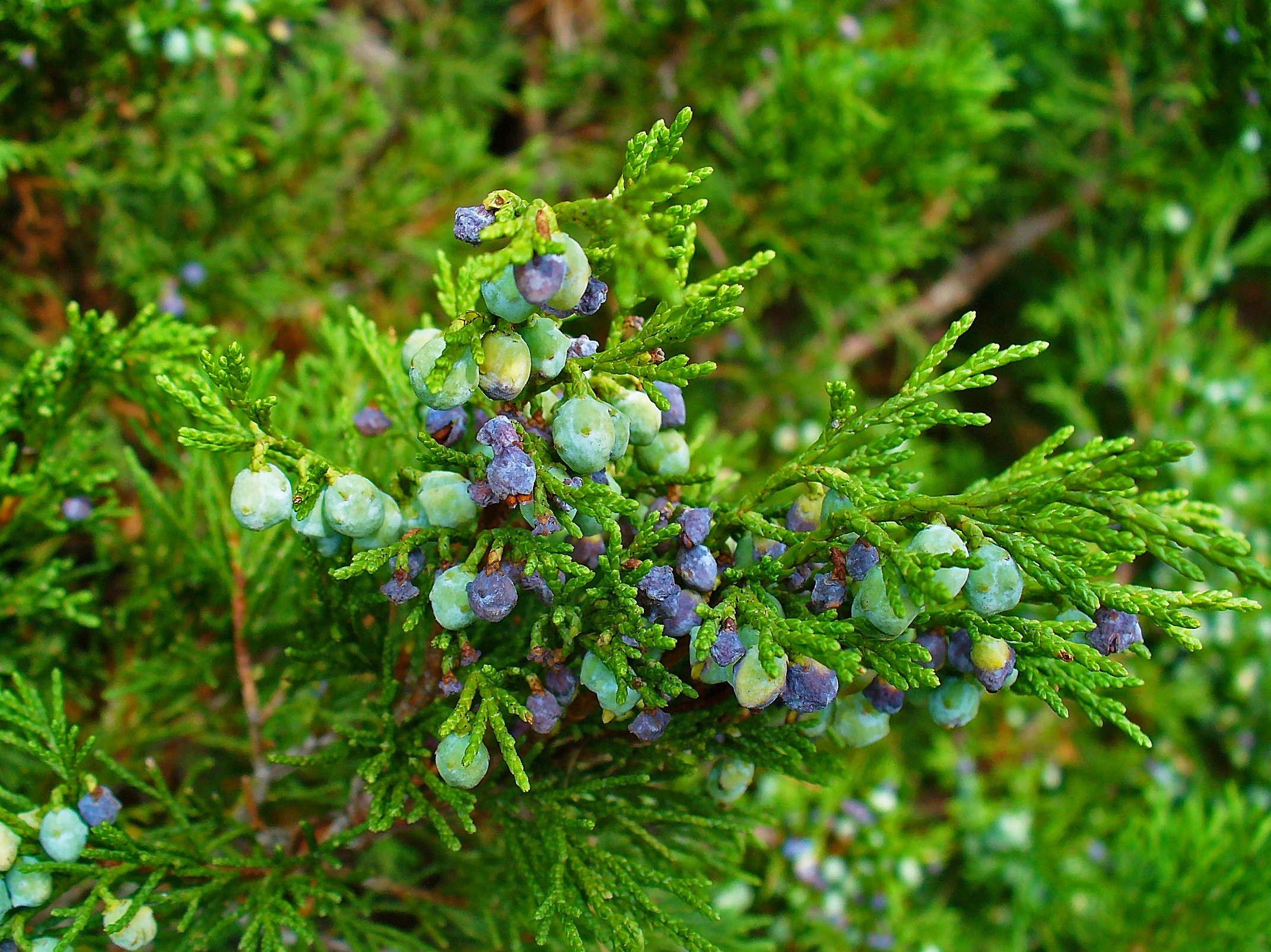 Juniperus sabina, Cupressaceae, Savin Juniper, berrycones; Botanical Garden KIT, Karlsruhe, Germany. The fresh, youngest and not woodened branchsprouts with the leaves are used in homeopathy as remedy: Sabina (Sabin.)